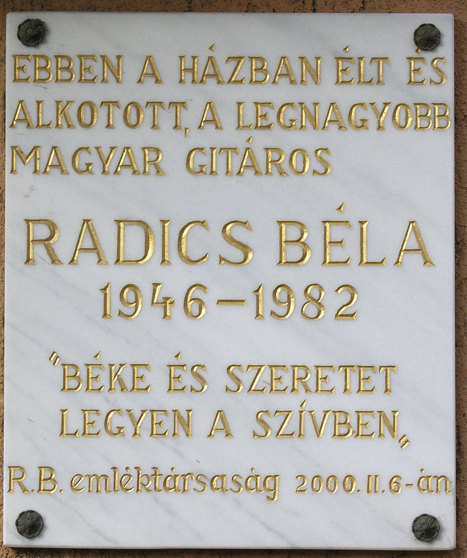 Commemorative plaque of Béla Radics in Budapest District XIII, Gyöngyösi Street No 47